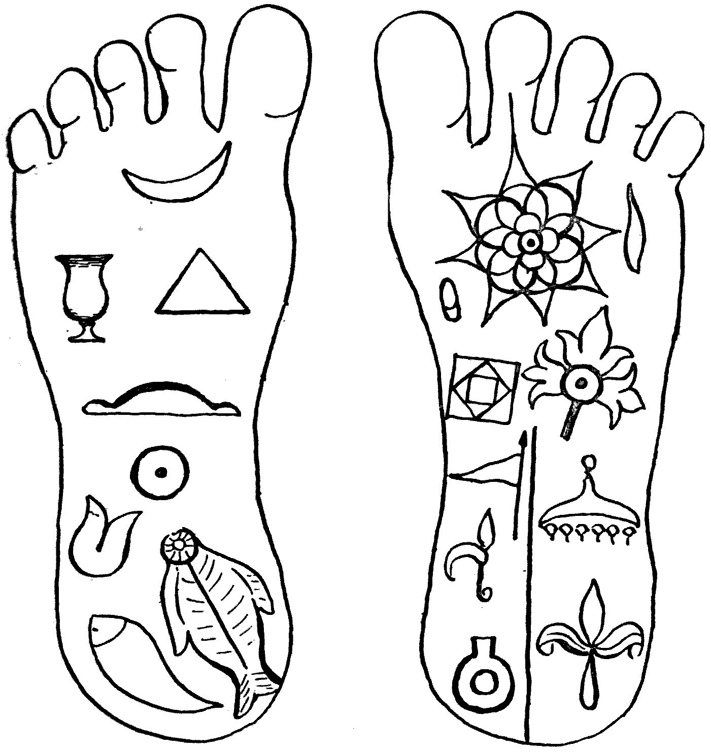 Illustration in book Indian Palmistry